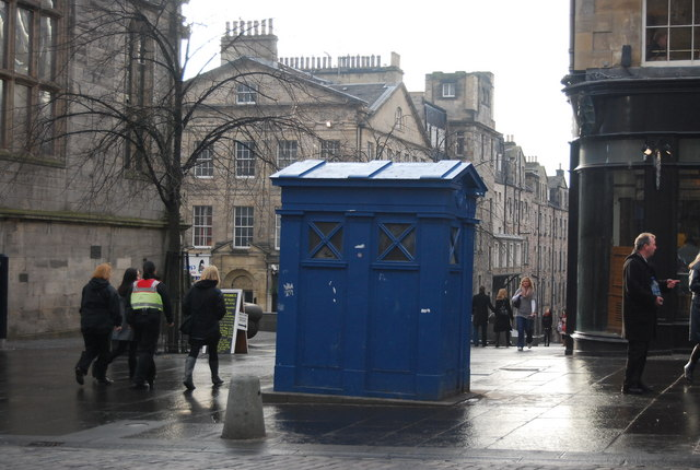 Police Box, Royal Mile. NT2573 :: Police Box, Royal Mile, near to Edinburgh, Great Britain